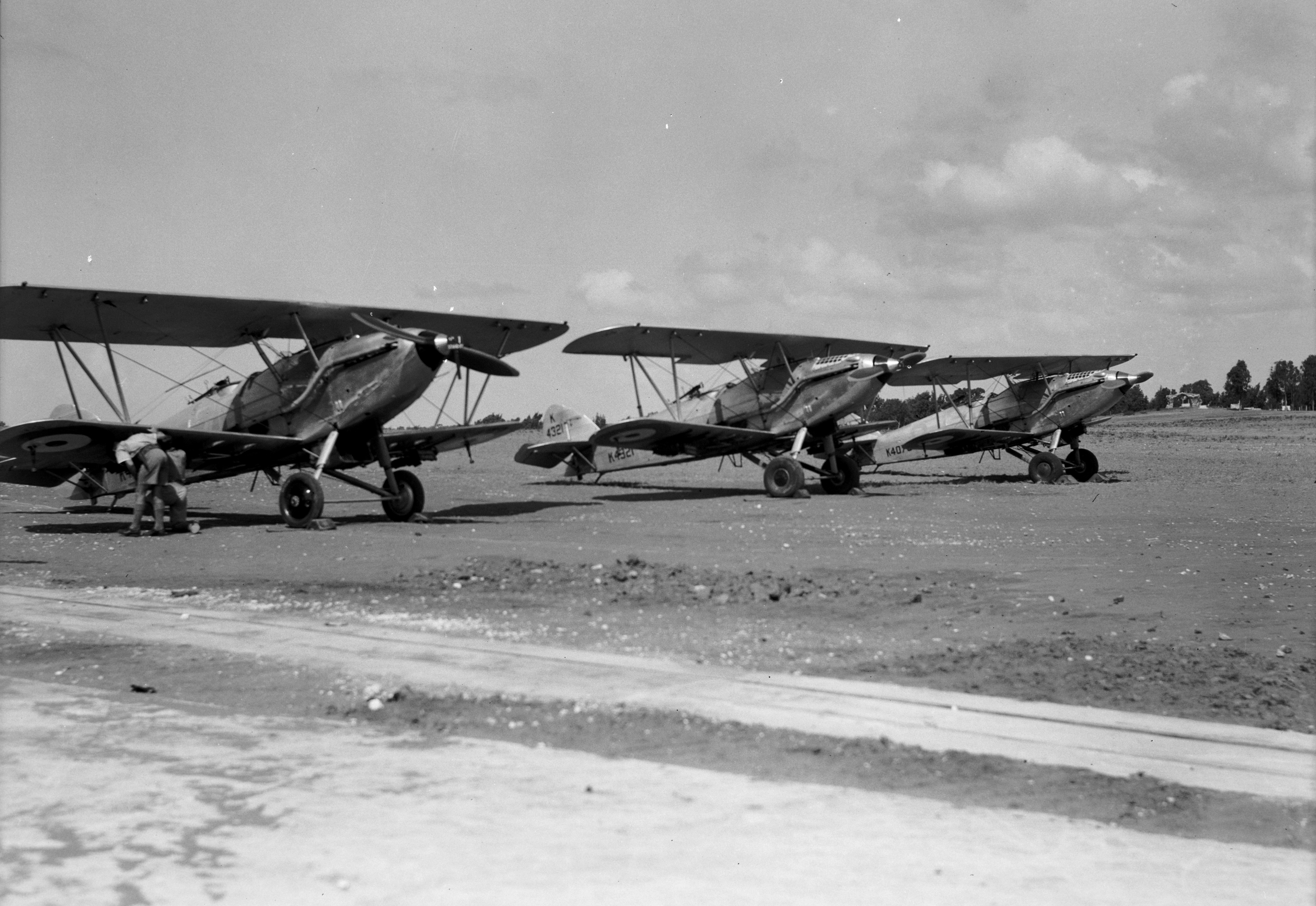 R.A.F. activities. Stand by planes on Ramleh Aerodrome. R.A.F. activities. Stand by planes on Ramleh Aerodrome. The aircraft type is Hawker Hardy, middle aircraft carries number K4321.